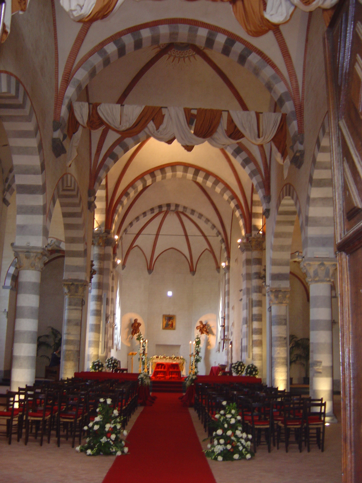 Inside : The Abbey of Cervara (Italian: Abbazia della Cervara or Abbazia di San Gerolamo) is a former abbey in the territory of Santa Margherita Ligure, Liguria, northern Italy